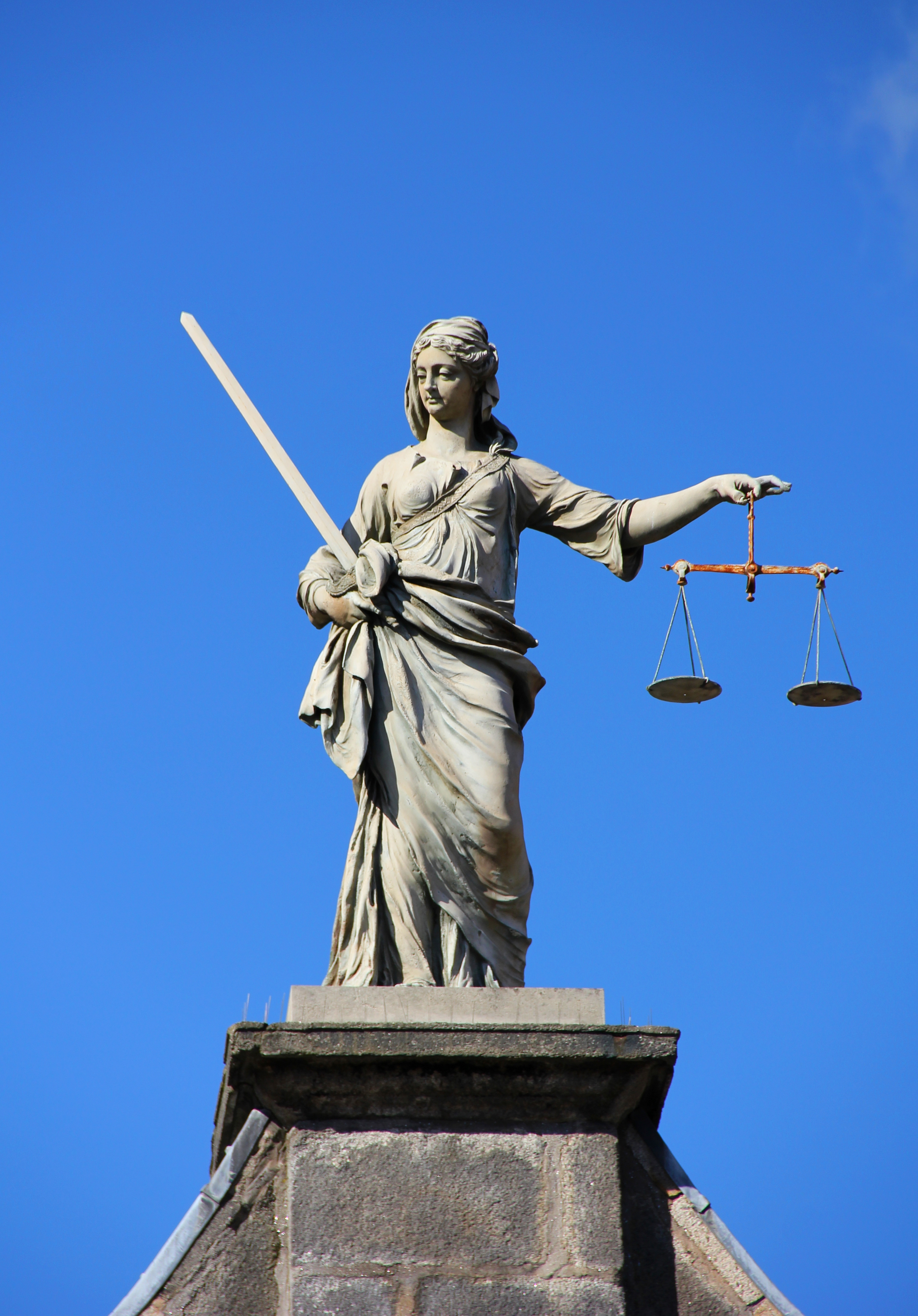 Dublin Castle's Gates of Fortitude and Justice - here the Justice statue by John van Nost the Younger on the Gate of Justice - in Dublin, Ireland.